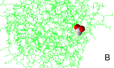 the structure model of Toxoplasma gondii Coronin